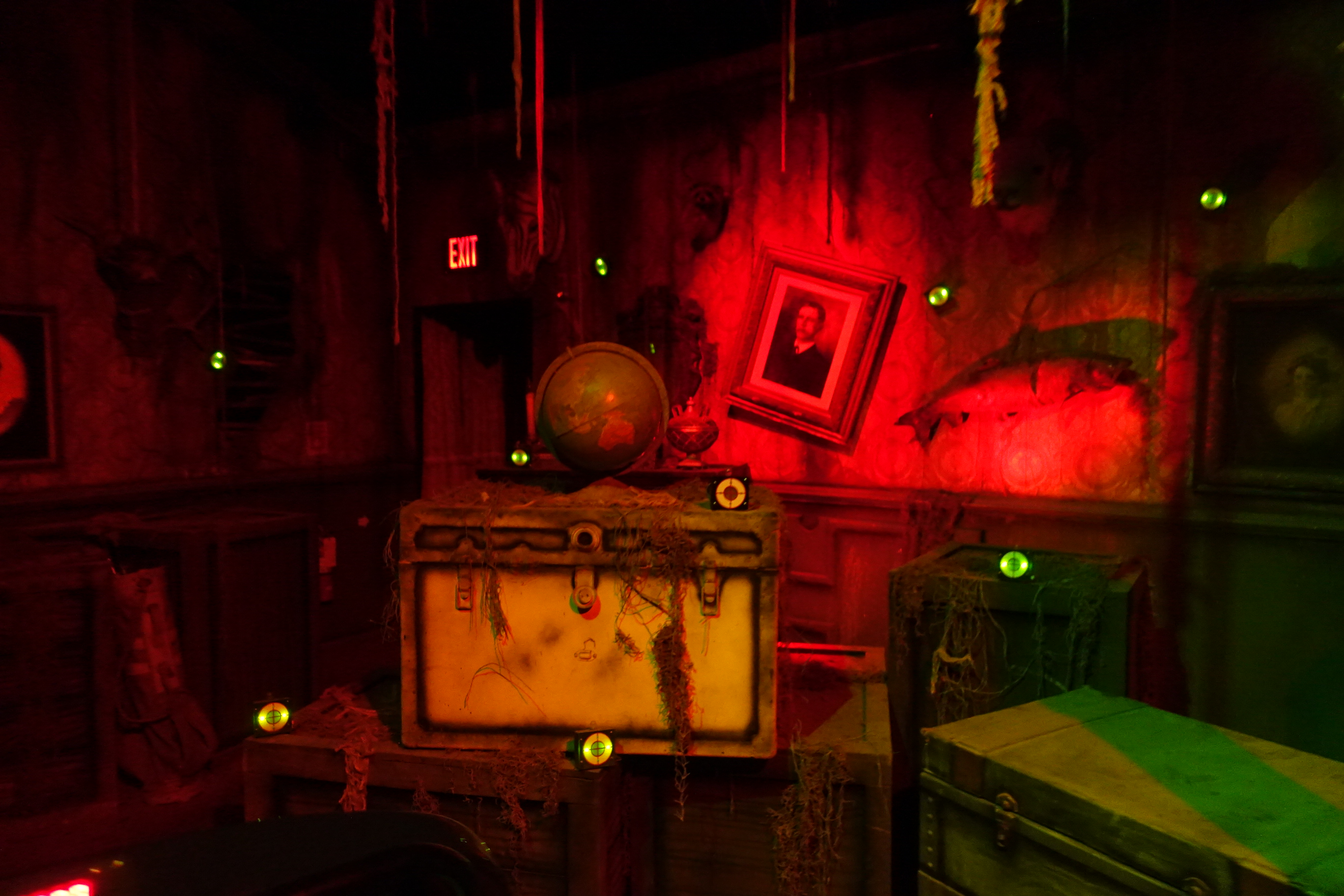 Ghostwood Estate